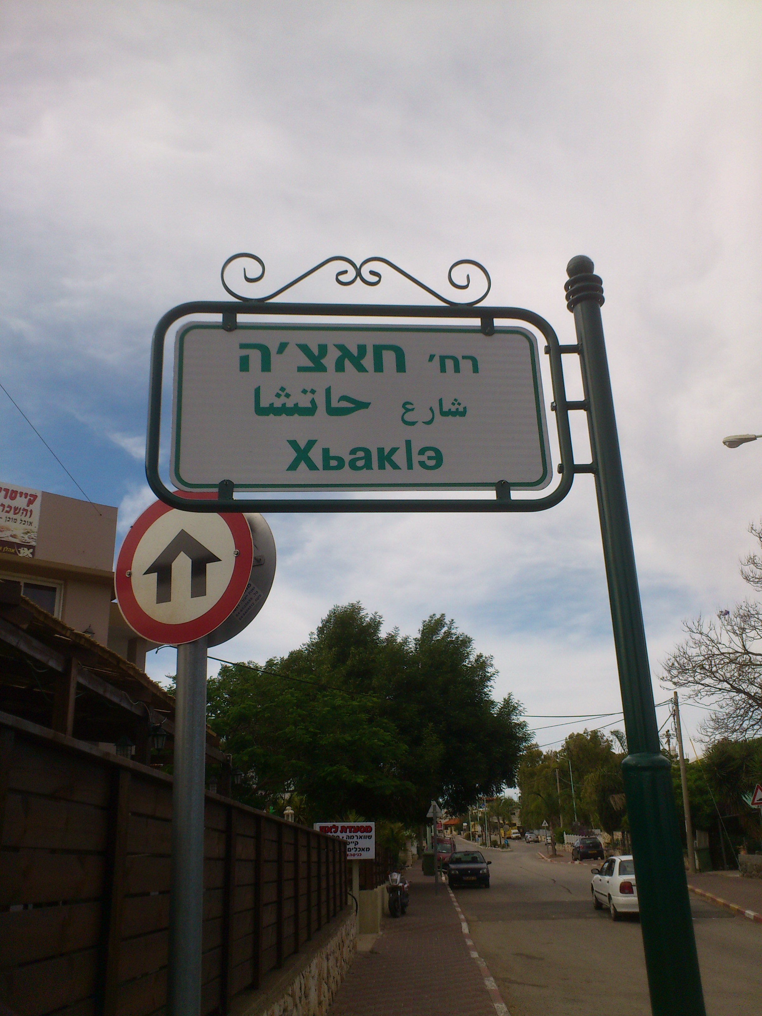 Street sign in Kfar-Kama in three languages